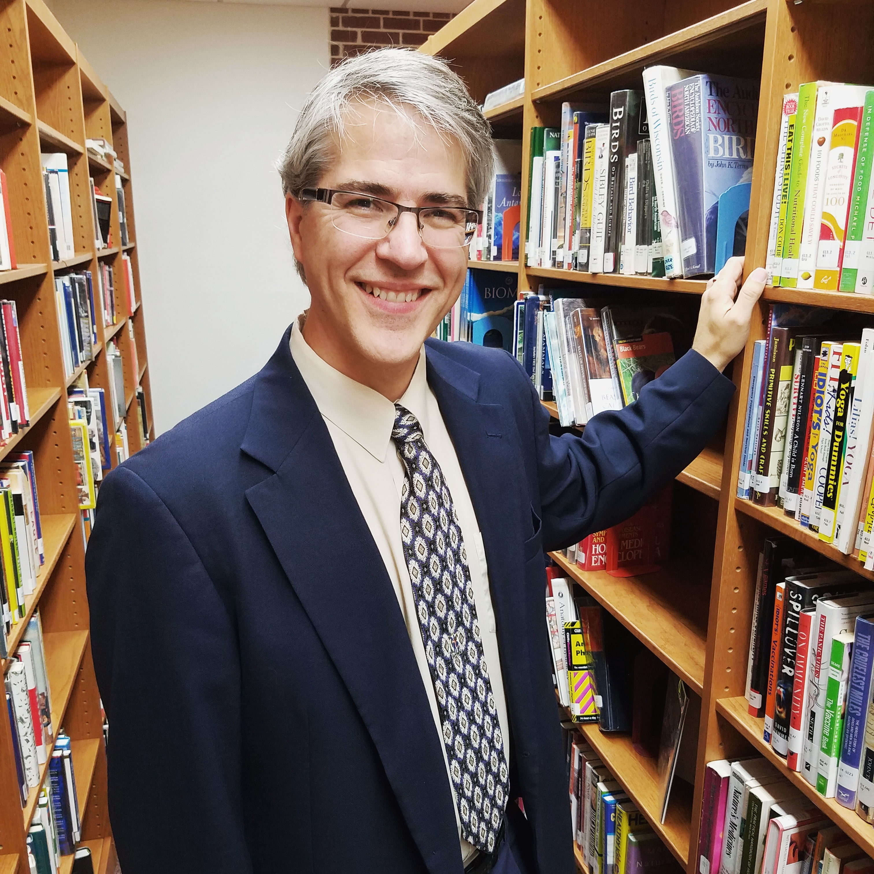 A portrait of Dr. Aharon W. Zorea, taken during summer of 2016 at the Brewer County Library in Richland Center, WI.